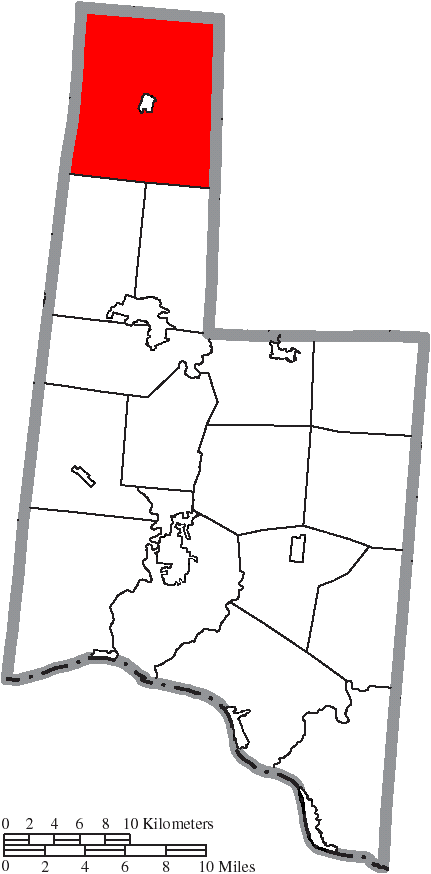 Map of the municipal and township boundaries of Brown County, Ohio, United States, as of the 2000 census, with the location of Perry Township highlighted. Township borders are shown only in unincorporated areas in order to differentiate incorporated and unincorporated areas more clearly.